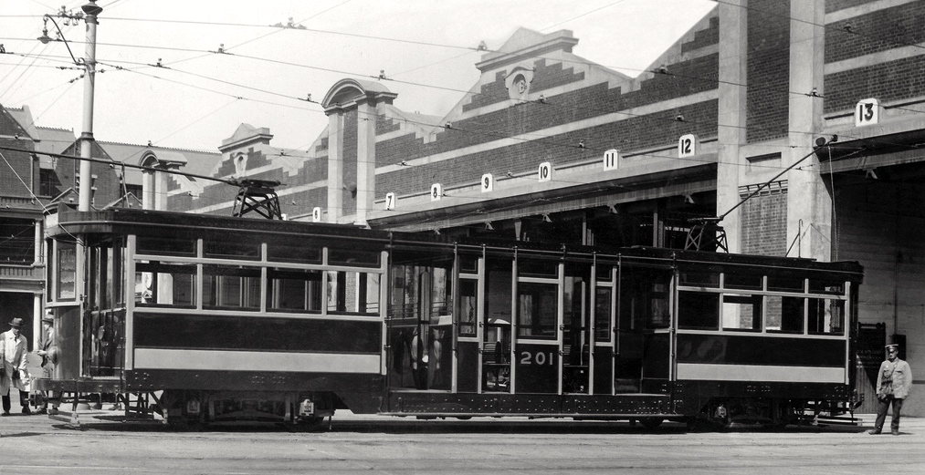 A new Type F "dropcentre" tram of Adelaide's Municipal Tramways Trust outside Tram Barn C at the Hackney Road Depot on 17 March 1922. W.G.T. Goodman, in his hat and characteristic white dustcoat is near the front with another suited man; a tram conductor is at the other end.